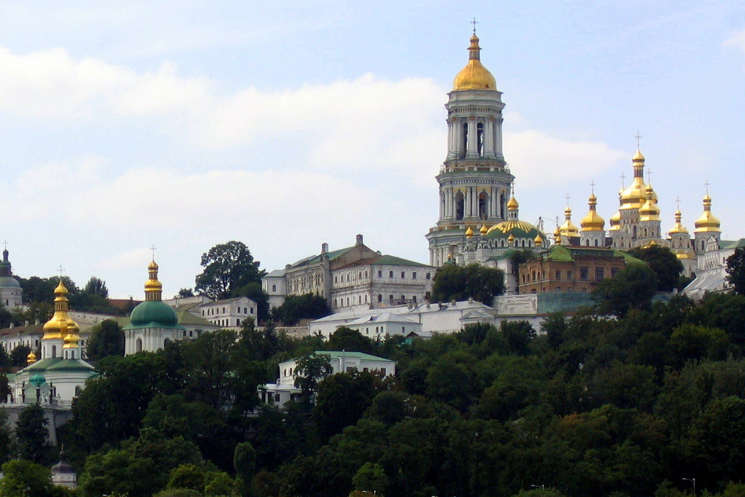 Kiev Pechersk Lavra / Kiev Monastery of the Caves, in Kiev, Ukraine. View from Dnepr river.